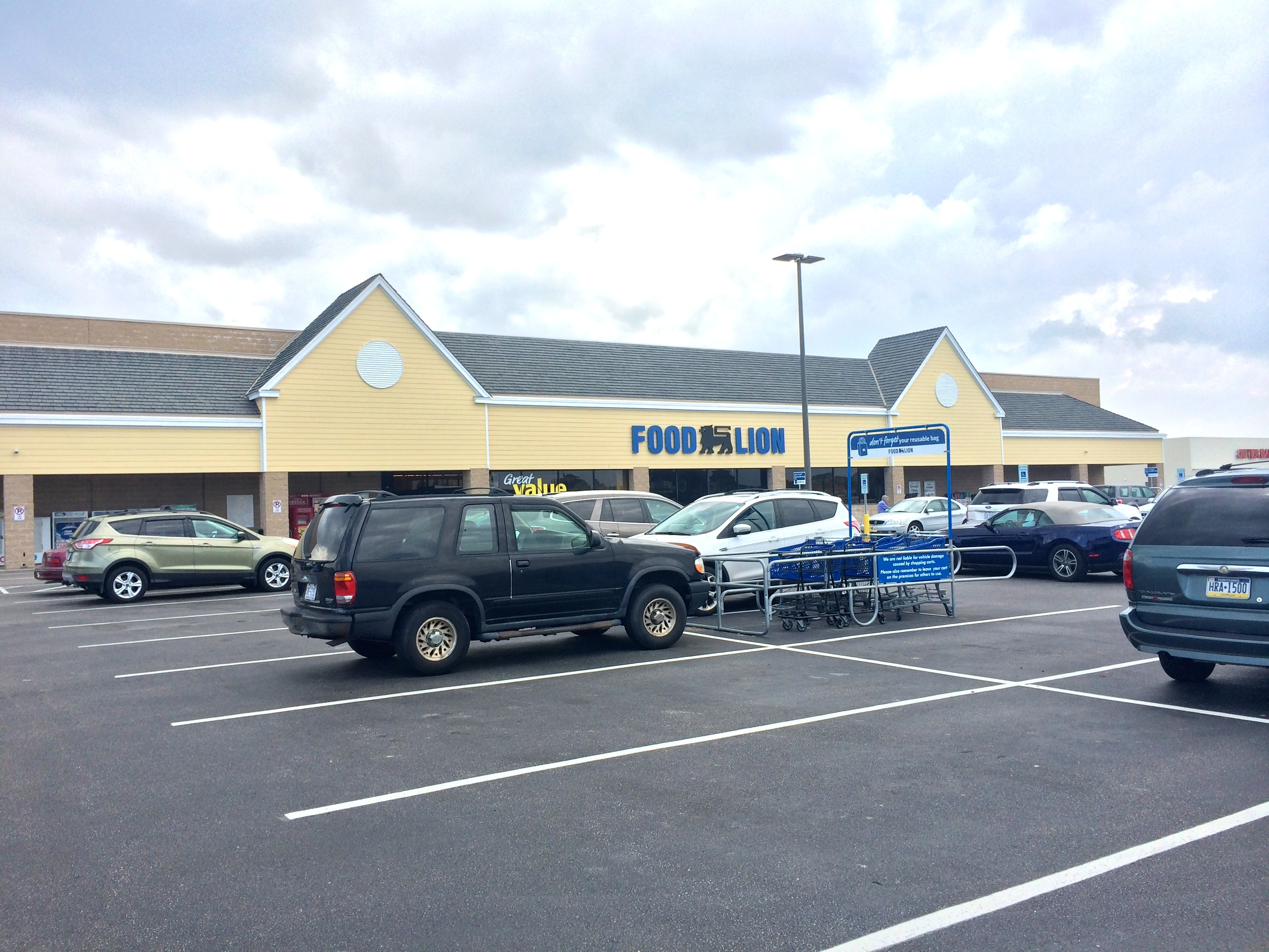 Food Lion store #2503 in Nags Head, North Carolina.